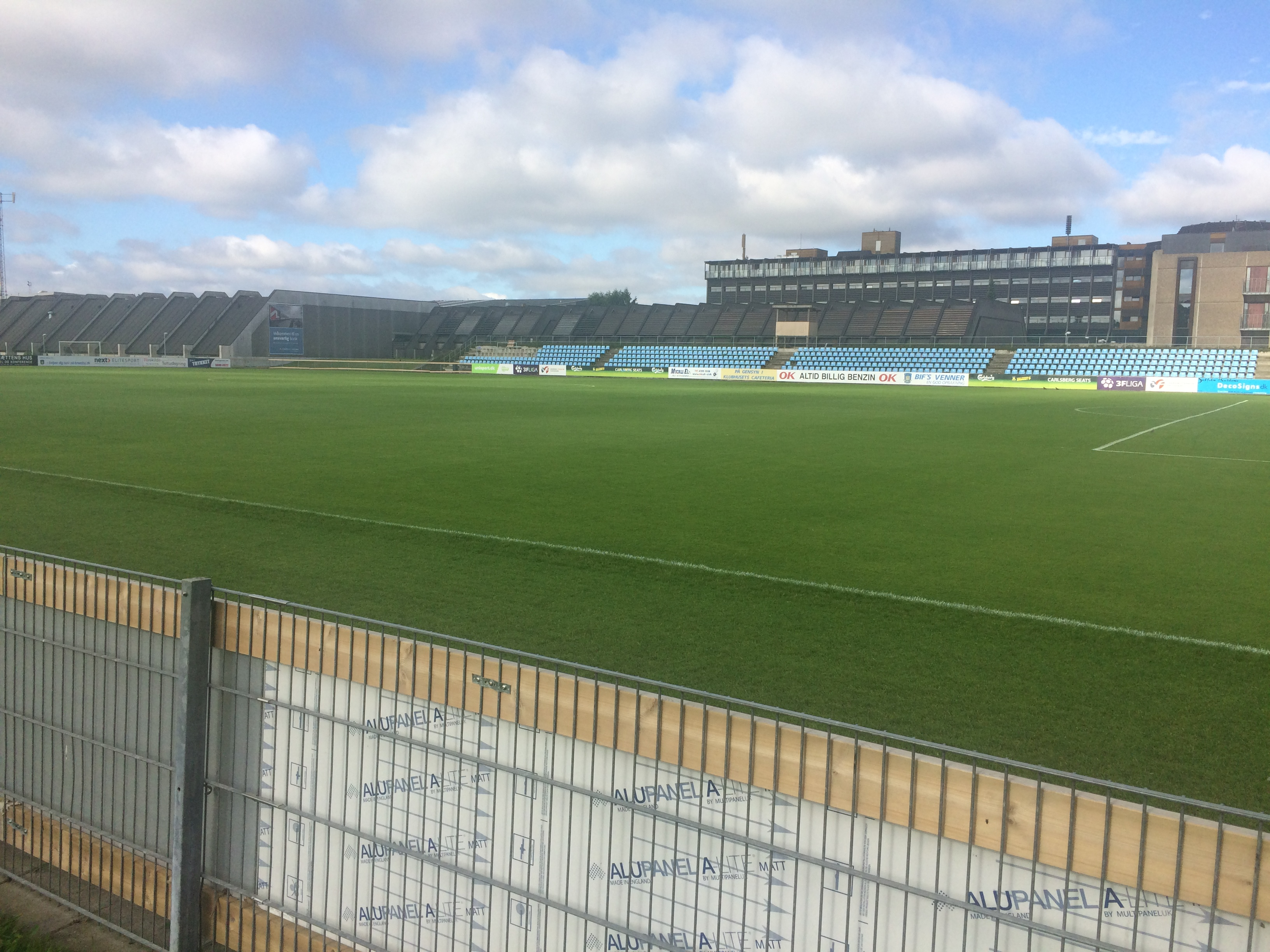 View of Brøndby Stadion - Bane 2